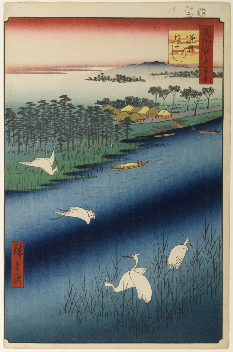 Part of the series One Hundred Famous Views of Edo, no. 067, part 2: Summer.